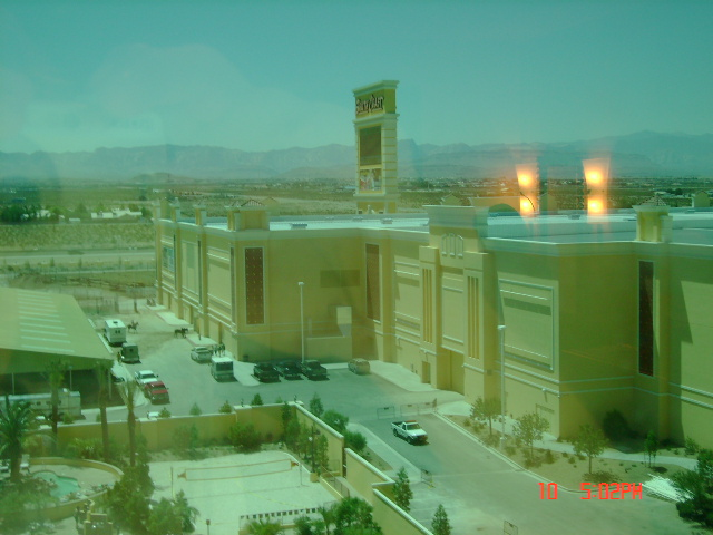 South Point Casino